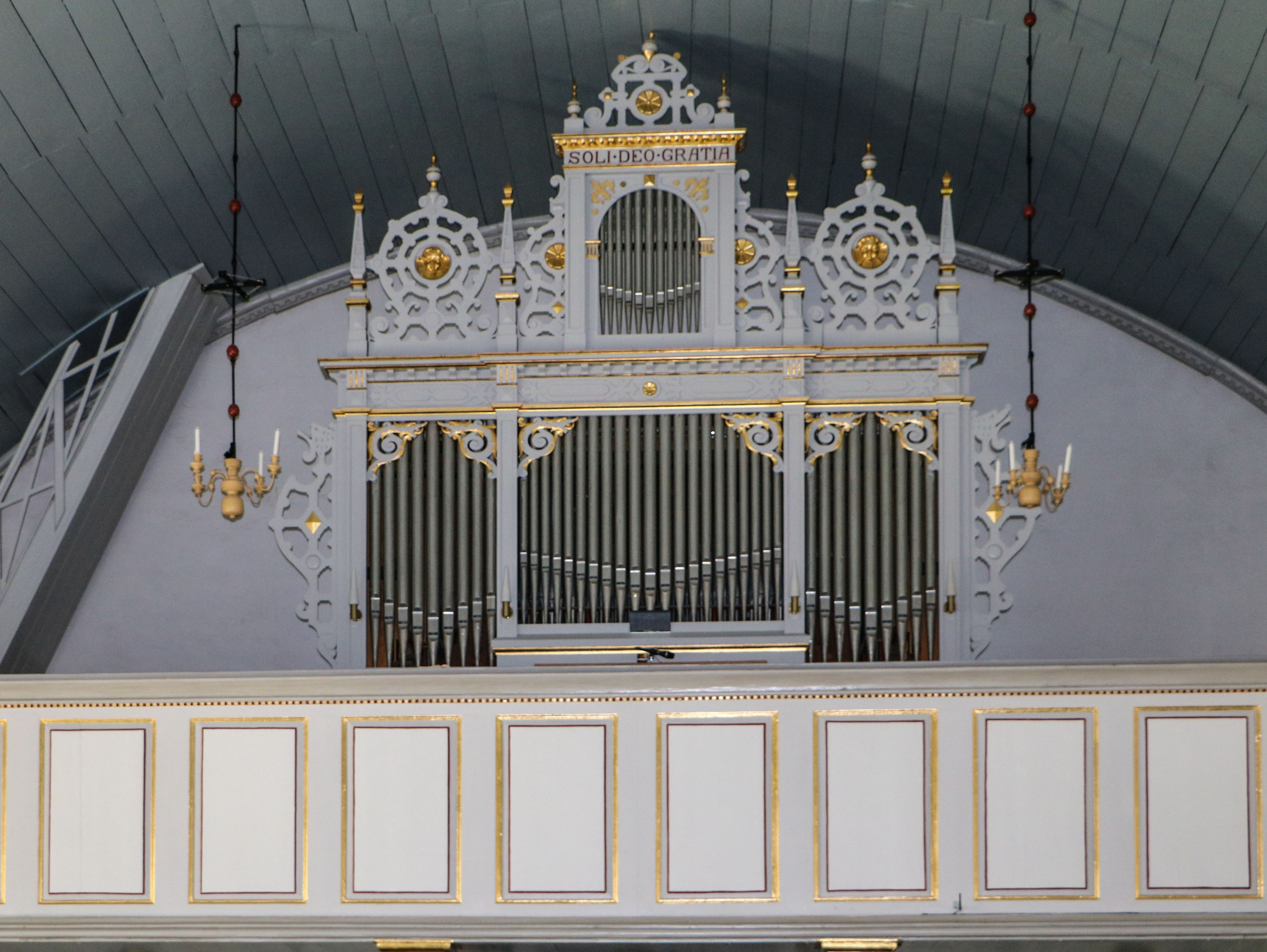 Norra Möckleby Church.The organ